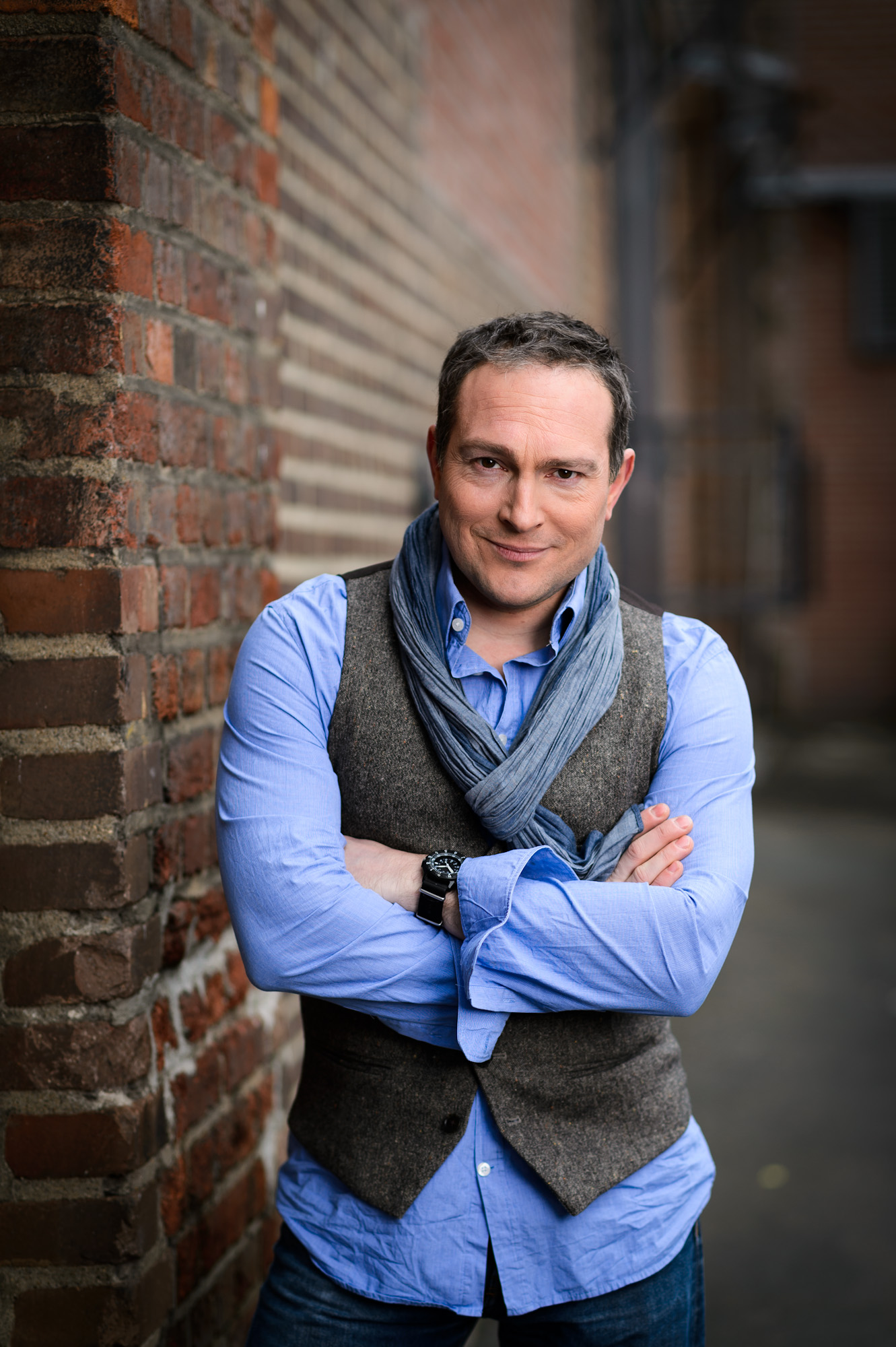 Foto: Willi Weber